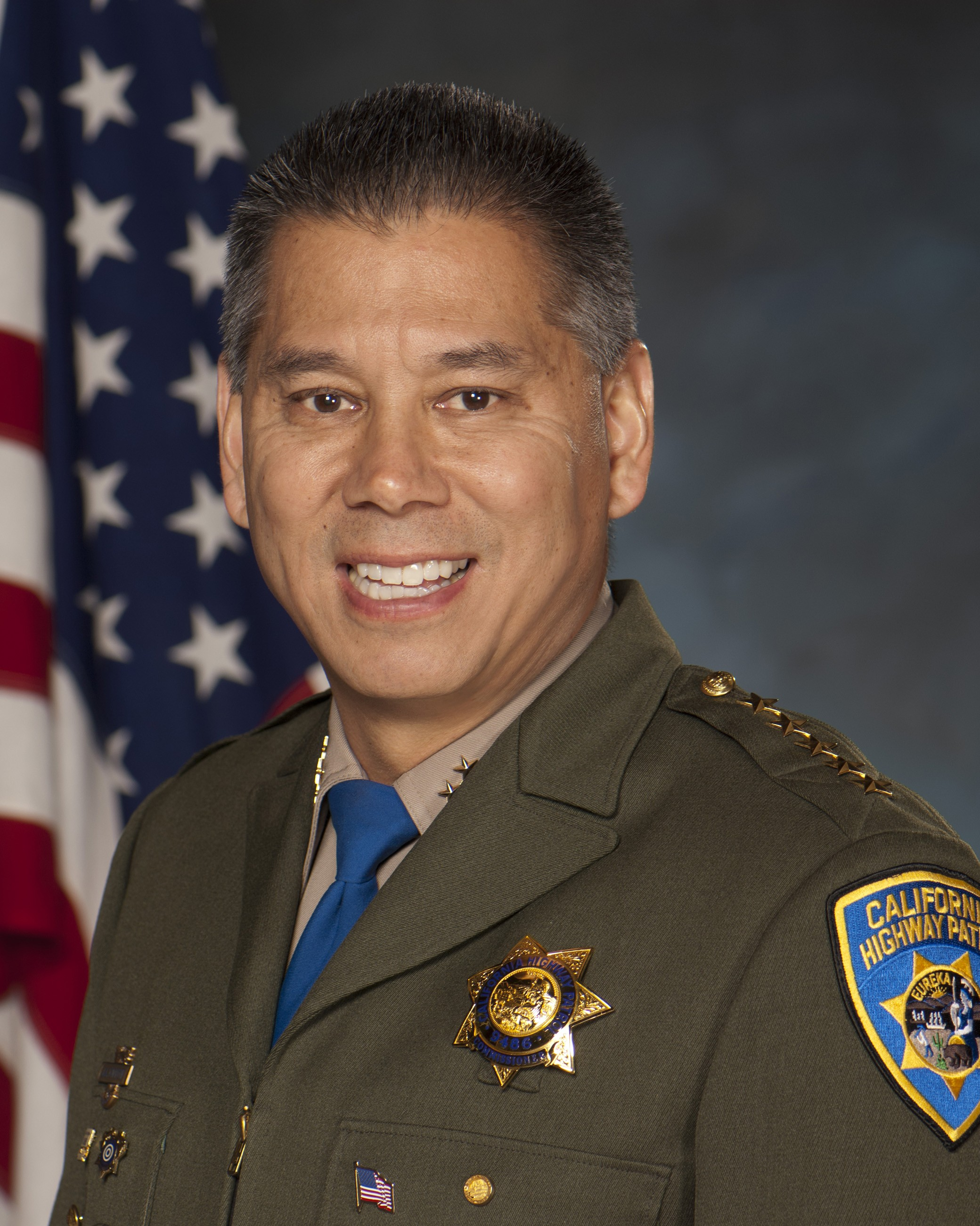 CHP Commissioner Joe Farrow